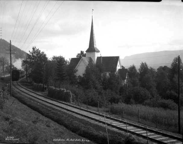 The Valdres Line and Nordre Aurdal Church in Nord-Aurdal, Norway